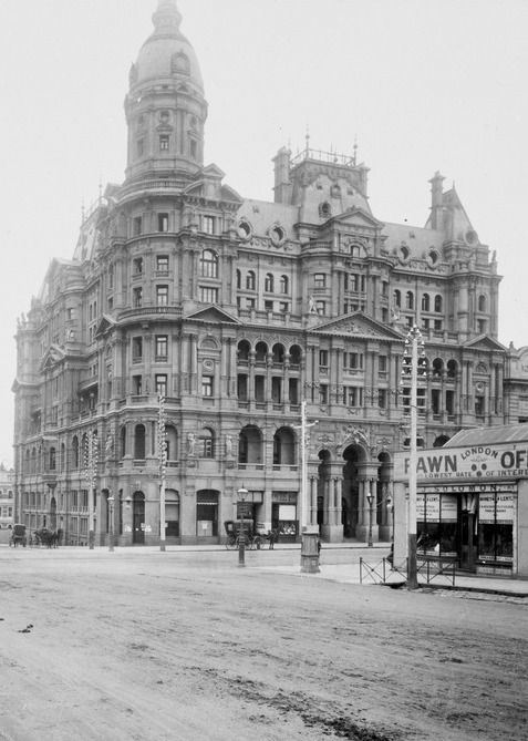 View of intersection of Collins and King Streets, urinal in foreground.